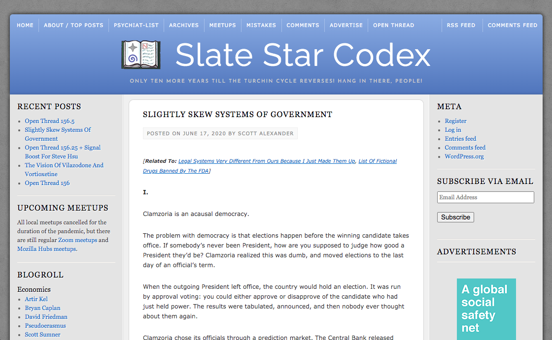 A screenshot of the main page of Slate Star Codex.